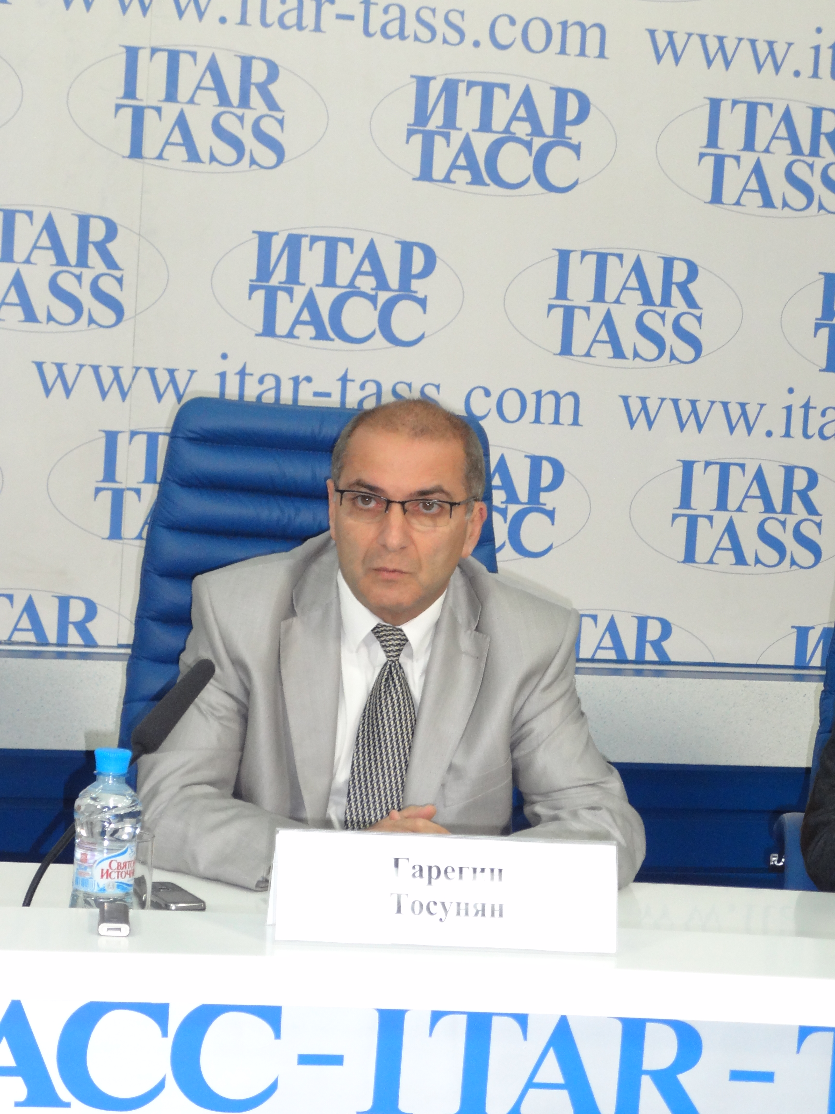 Garegin Tosunyan Ashotovich, Russian banks association' President.